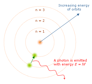 A diagram of the Bohr model of the atom.